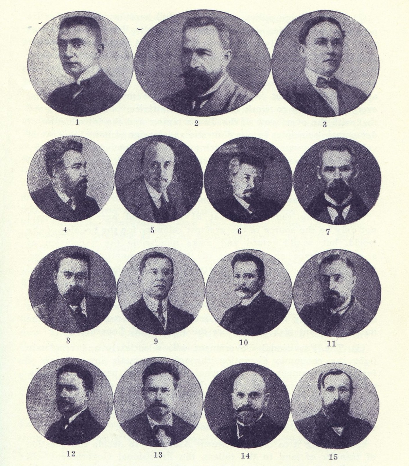 Thumbnail photographs of the members of Second Russian Provisional Government (6th of August - 8th of October 1917). Minister-President and Minister of War and Navy — A. F. Kerensky Prime Minister and Minister of the Interior — Prince G. E. Lvov Minister of Foreign Affairs — Mikhail I. Tereshchenko Minister of Education — A. A. Manuilov Minister of Justice — N. P. Pereverzev Minister of Agriculture — Victor Chernov Minister of Supply — Alexey V. Peshekhonov Minister of Finance — A. I. Shingariov Minister of Trade and Industry — A. I. Konovalov Minister of Ways of Communication — N. V. Nekrasov Minister of Post and Telegraph — I. G. Tseretelli Minister of Labor — M. I. Skobelev State Comptroller — I. V. Godnev Ober-Procurator of the Holy Synod — V. M. Lvov Minister of Public Welfare — Prince D. I. Shakhovskoy